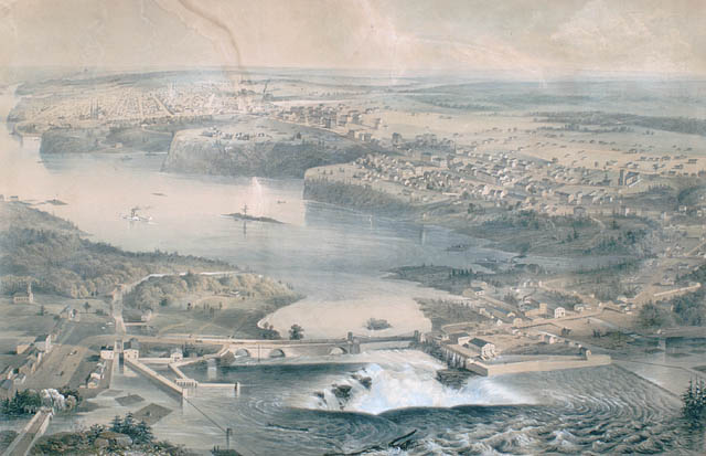 A view of Ottawa, some of Hull and of the Ottawa River circa 1859, including views of the Chaudière Falls and of Parliament Hill (formerly Barrack Hill) prior to the construction of the Parliament Buildings. Ottawa, Ontario, Canada. Lithograph, hand-coloured, some discolouration, water mark at top left. Crack in paper, upper centre. Title:City of Ottawa, Canada West. View of Parliament Hill and Chaudière_Falls. ca. 1859, by Stent and Laver Original caption: "Recto, l.l.: Published by Mess'rs Stent & Laver, Architects &c. Ottawa C.W. l.c.: Copy Right secured in Canada and the United States. / CITY OF OTTAWA [coat of arms, "quiet study"] CANADA WEST. / To His Excellency the Right Honorable Sir Edmund Walker Head Baronet &c. &c. Governor General of British North America. This View of the City of Ottawa / is by permission most respectfully dedicated by his Excellency's obliged and very obedient servants / Stent & Laver. l.r.: Sarony Major & Knapp Lith. 449 Broadway N.Y., sold by: R. & C. Chalmers"